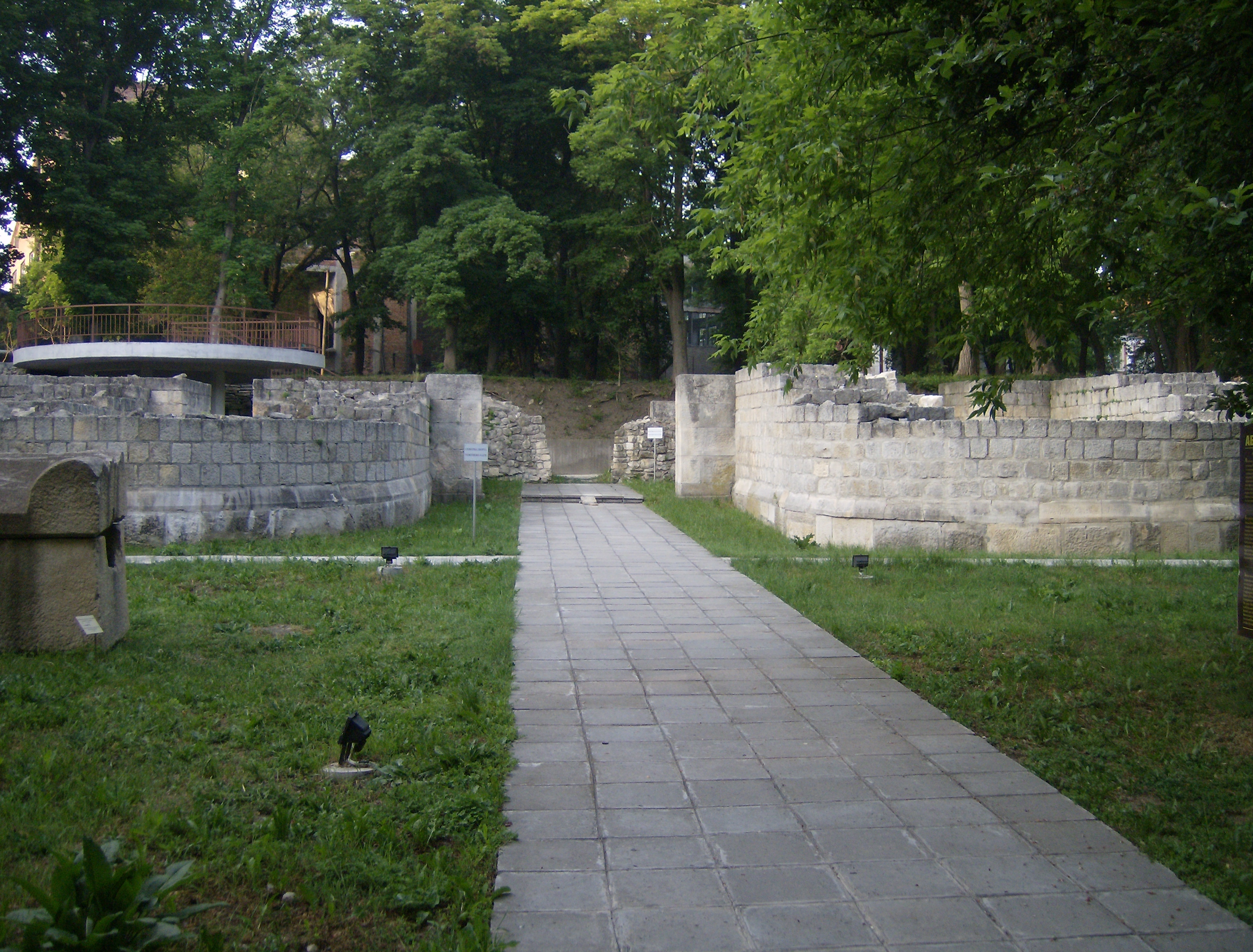 Abrittus